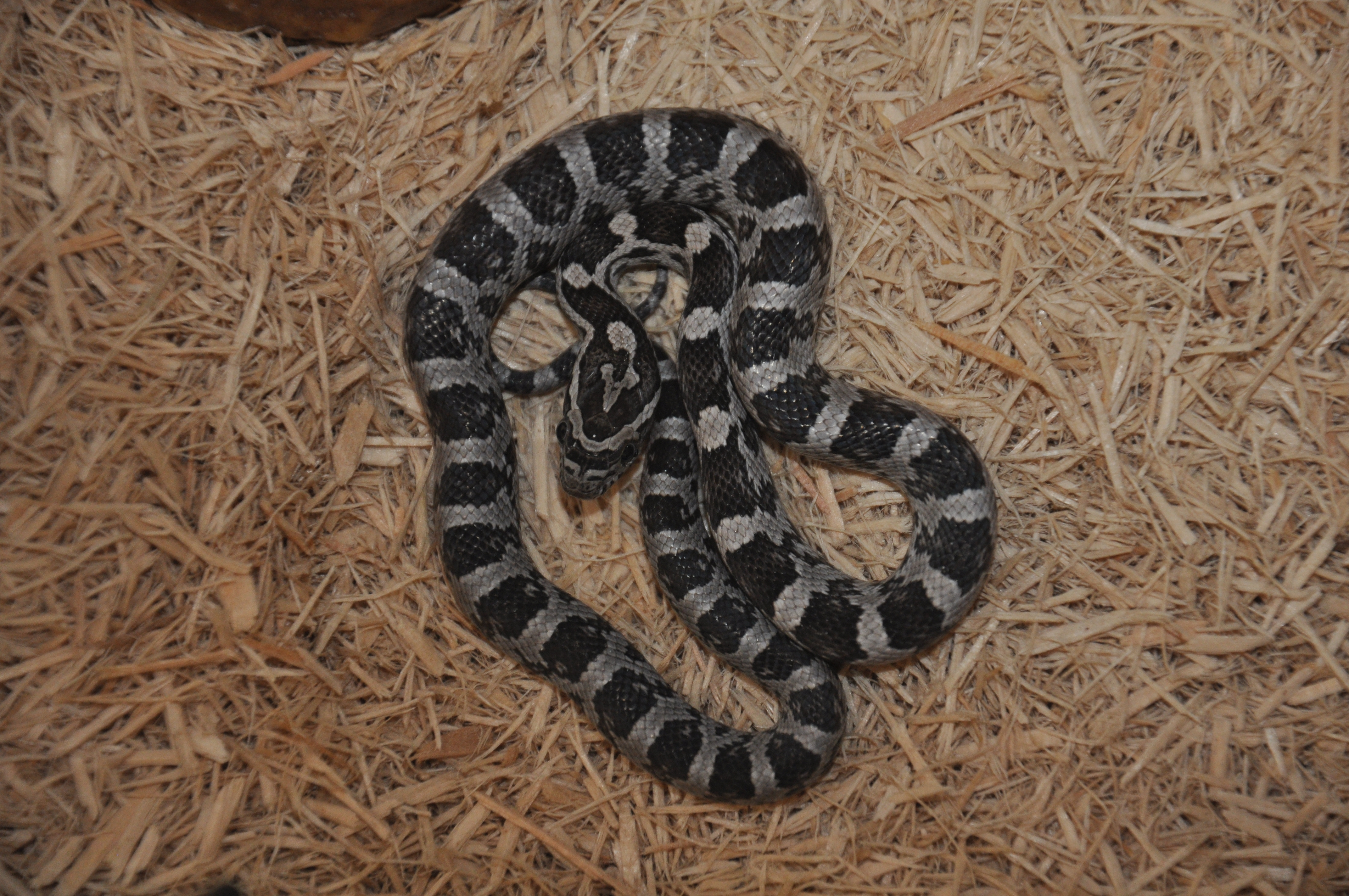 corn snake